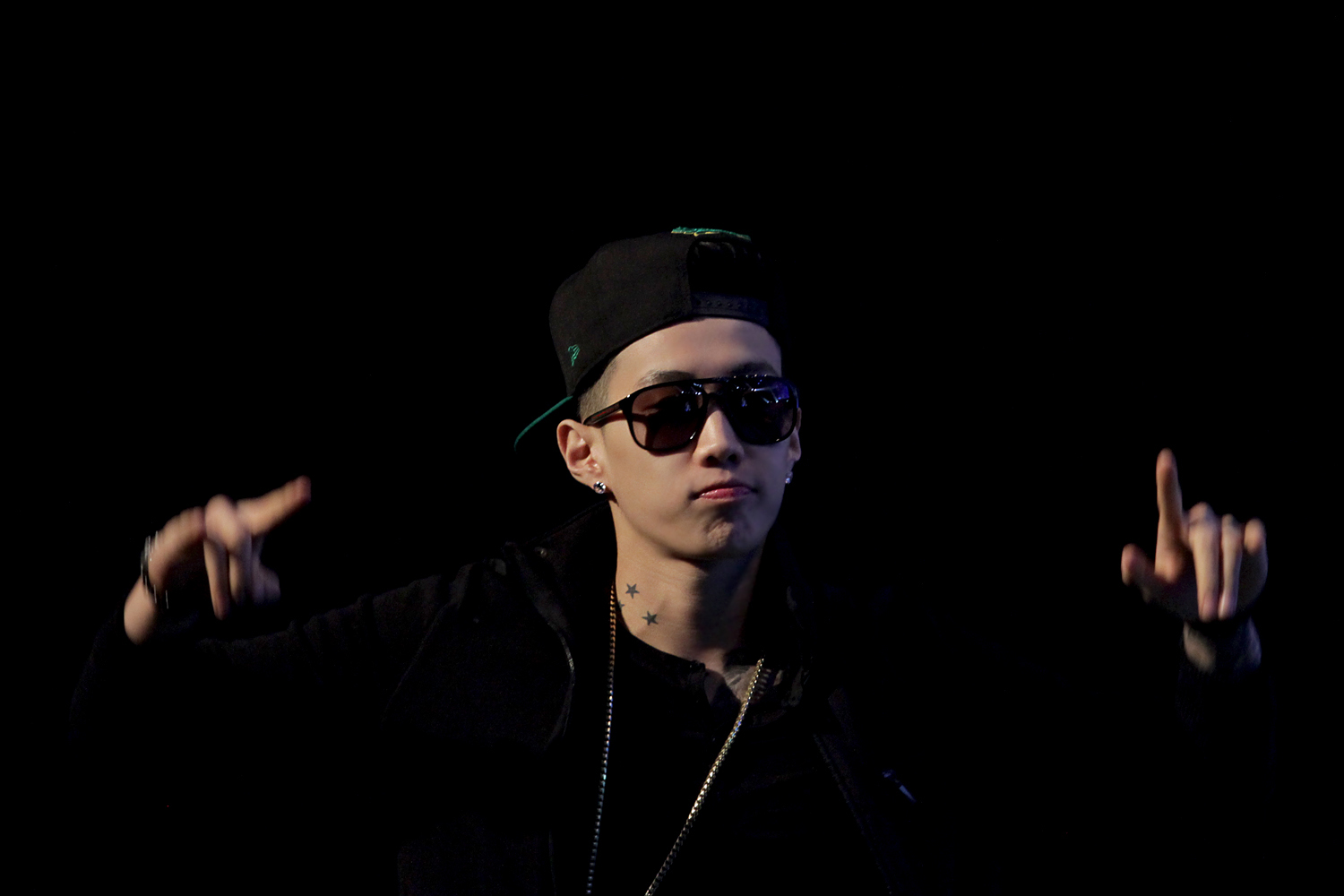 Jay Park at the Korean Music Awards in February 2013.